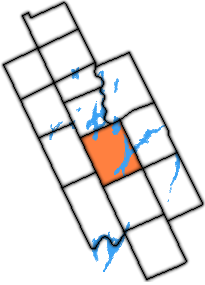 Map of Victoria County (Now city of Kawartha Lakes), with former township of Fenelon highlighted in orange.